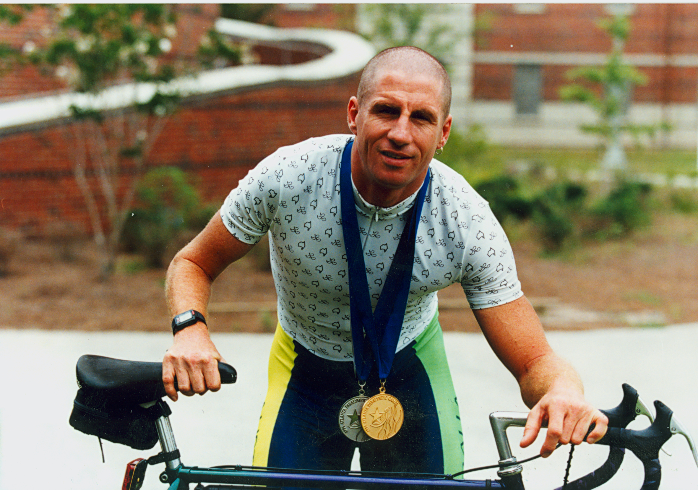 Australian cyclist Peter Homann at the Atlanta 1996 Paralympic Games.